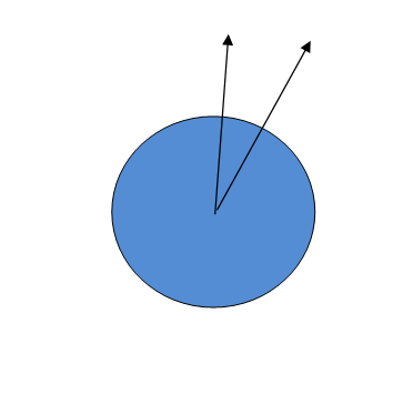 drawing